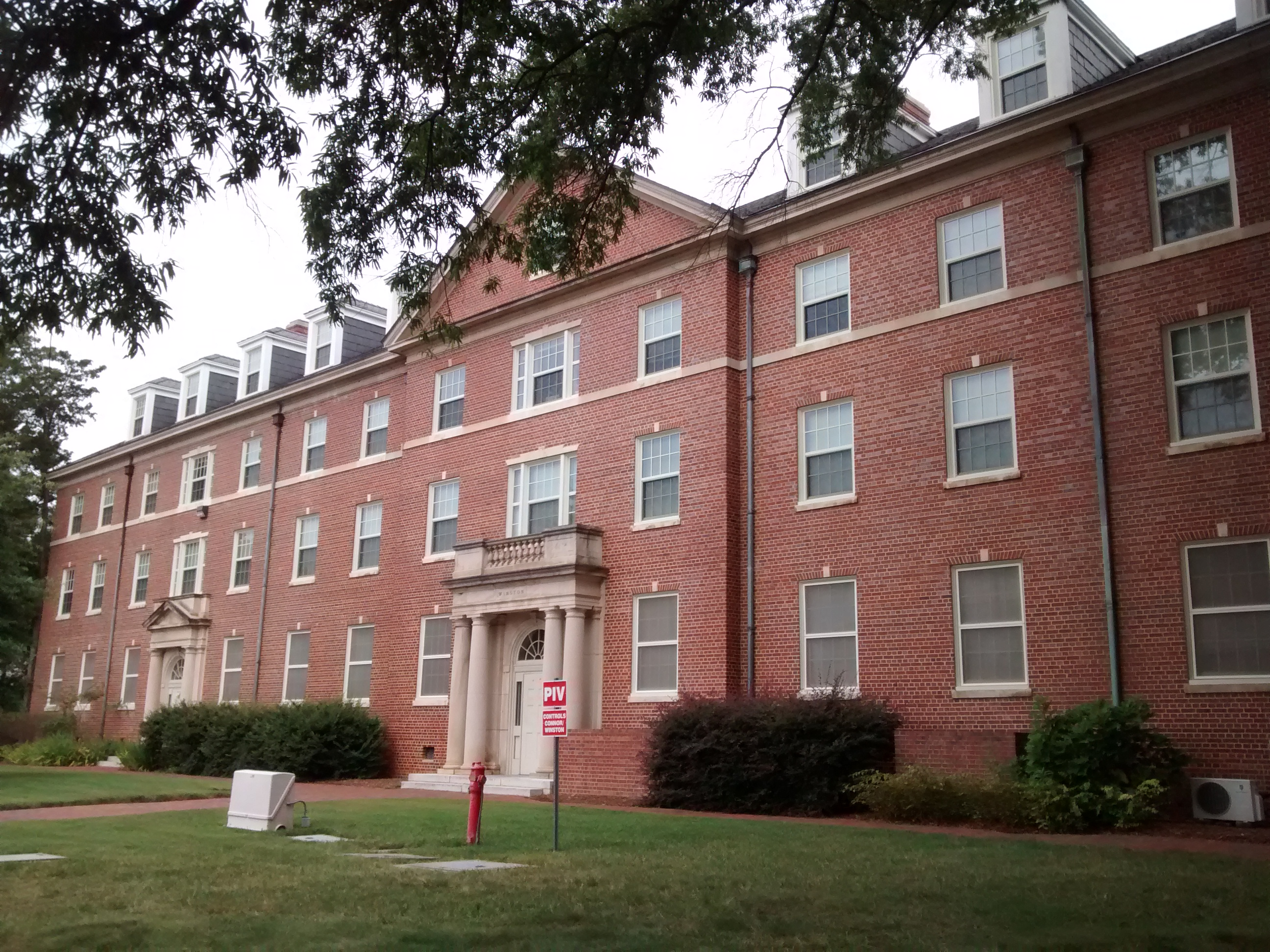 Winston Residence Hall at the University of North Carolina at Chapel Hill.